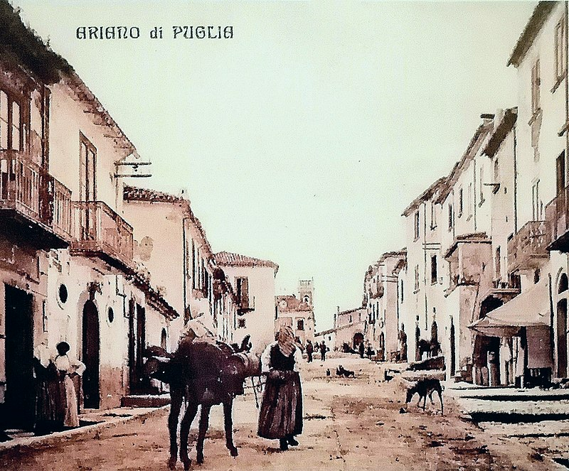 The national road of Apulia in Ariano di Puglia (now Ariano Irpino), Italy